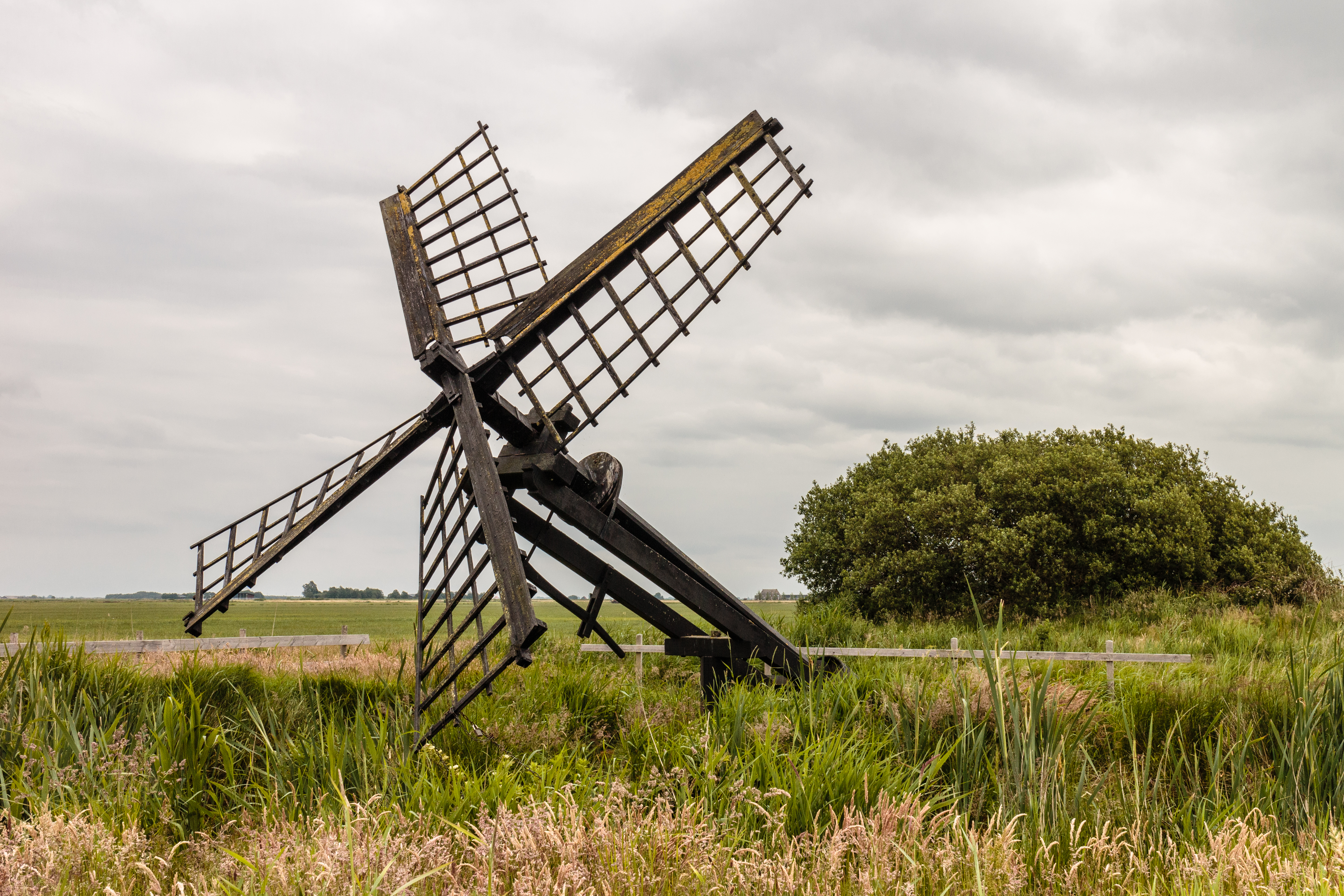 Tjasker Zandpoel Municipal monument in De Fryske Marren.